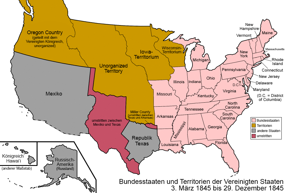 Map of the states and territories of the United States as it was from March 1845 to December 1845. On March 3 1845, Florida Territory was admitted as the state of Florida. On December 29 1845, the Republic of Texas and all of its claimed lands were admitted as the state of Texas.